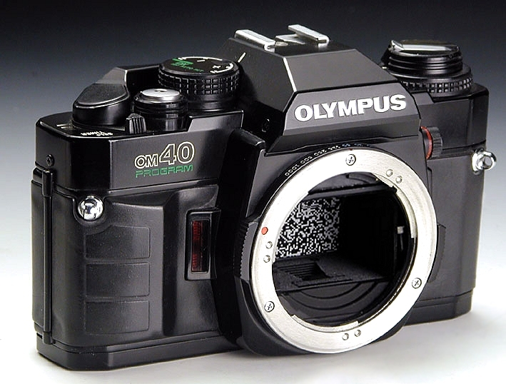 Olympus OM-40 with visible random pattern on 1st shutter curtain